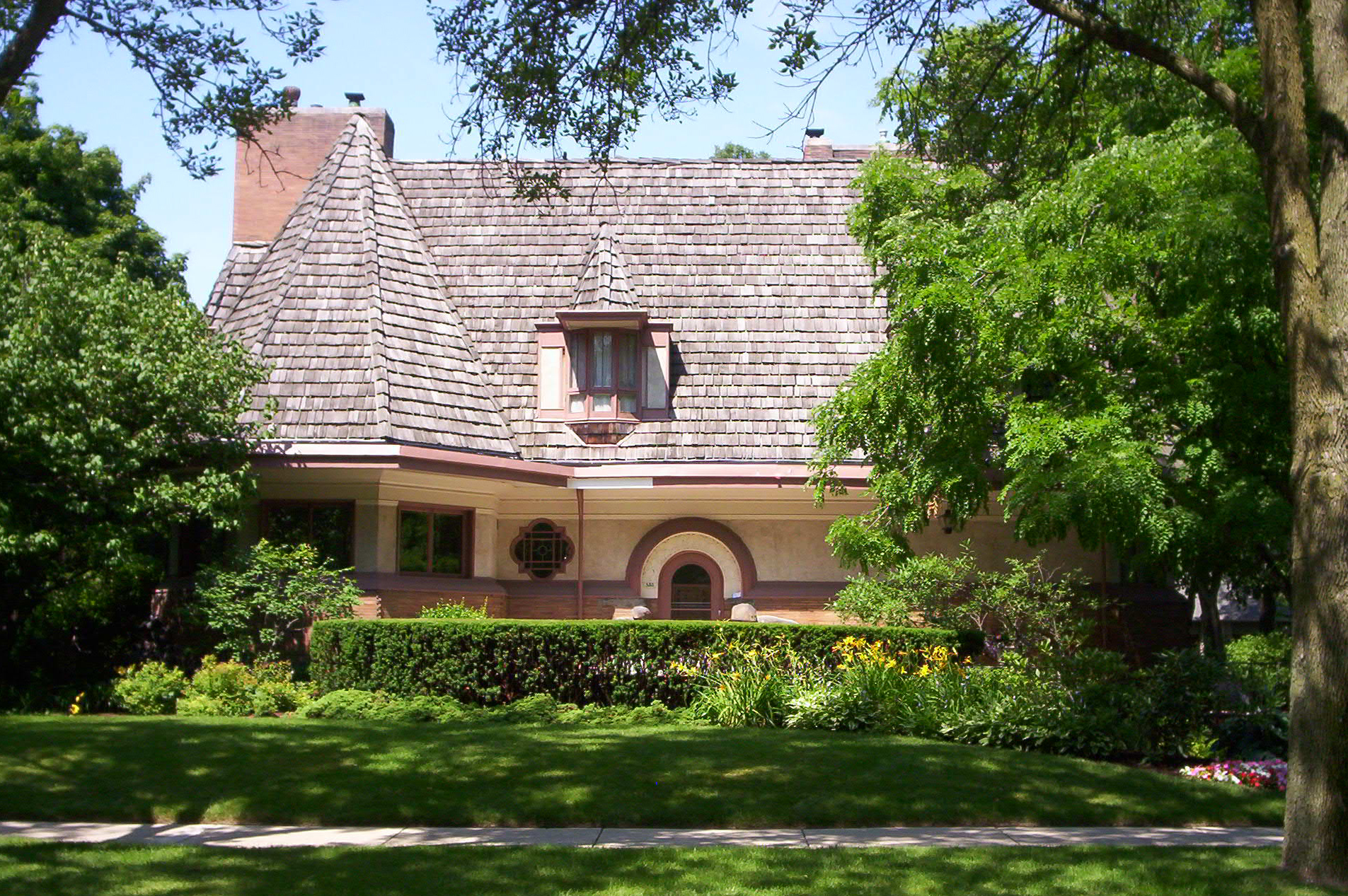 Chauncey L. Williams House (1895) 530 North Edgewood Place River Forest IL USA Architect: Frank Lloyd Wright